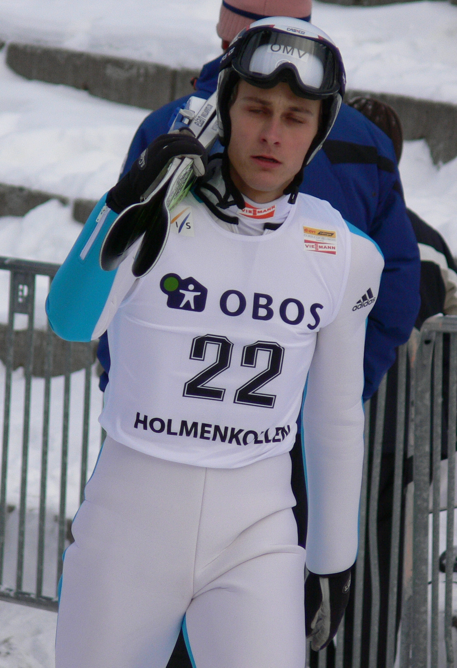 Borek Sedlák at World Cup in Holmenkollen, Norway